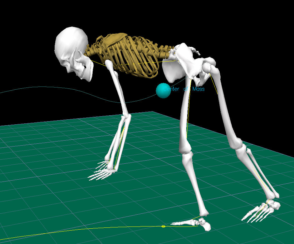 Center of mass of a gymnast at the end of a cartwheel, Visual3D image, uOttawa